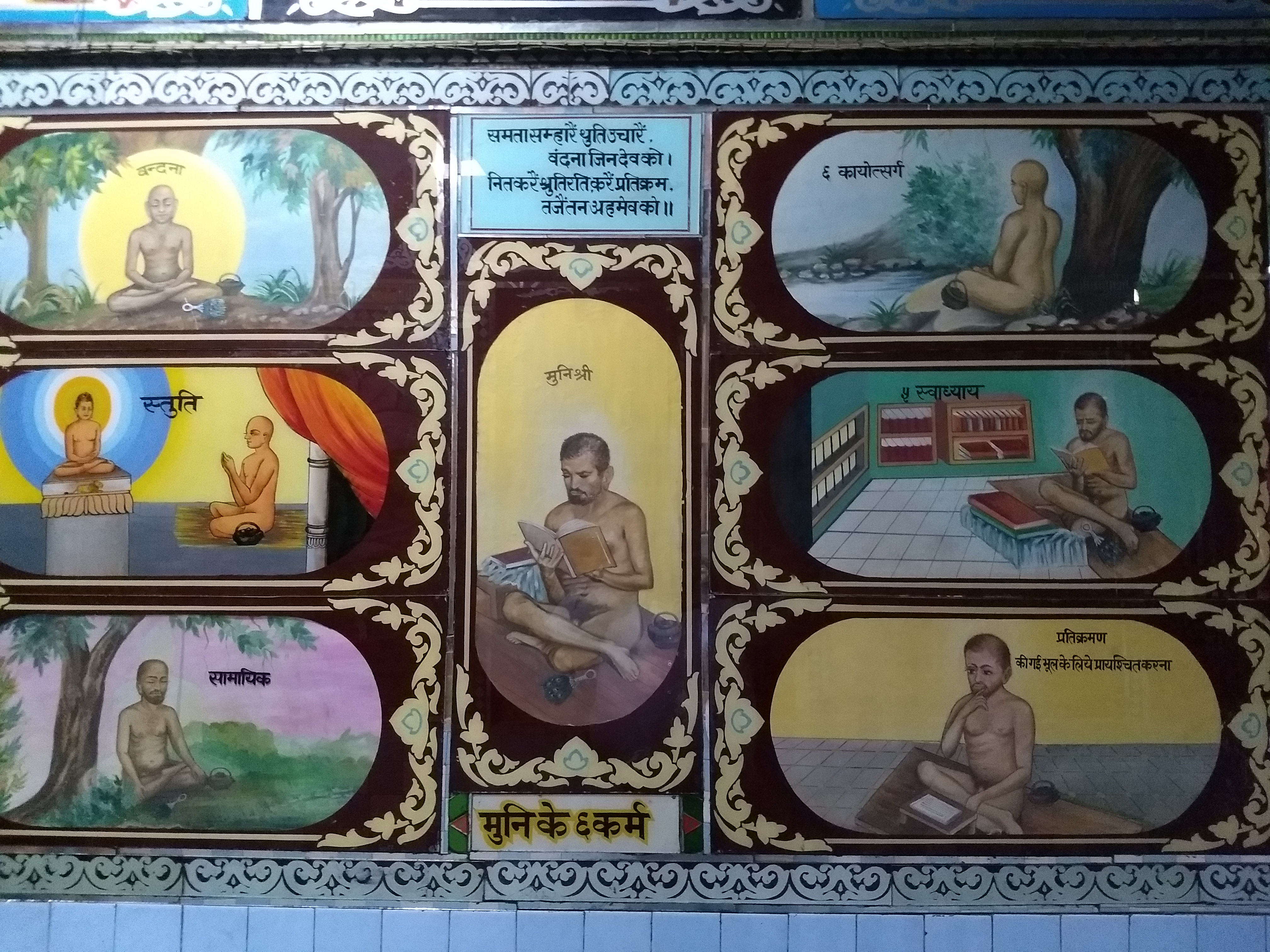 Tijara Jain temple paintings